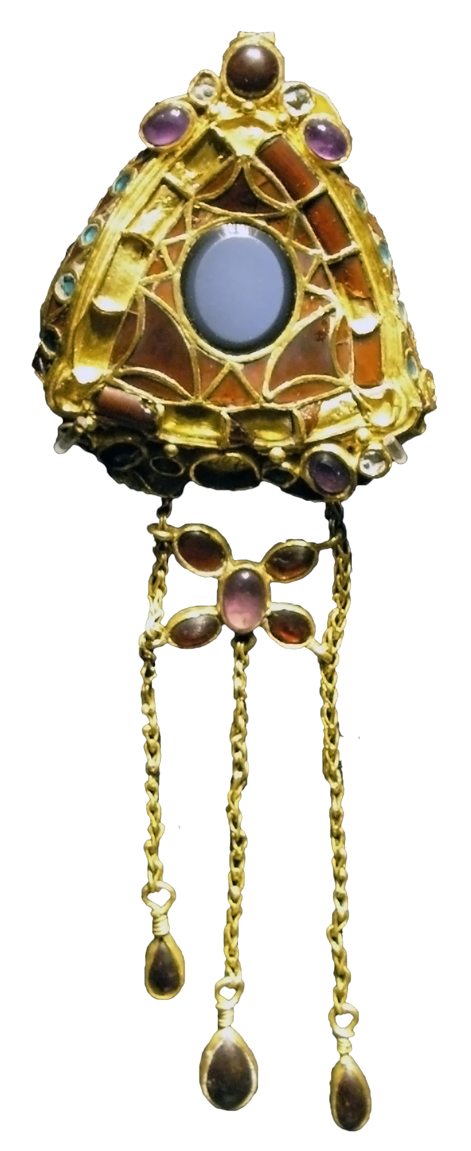 Fibula. Germanic, 2nd half of 4th century C.E., gold with semi-precious inlays.